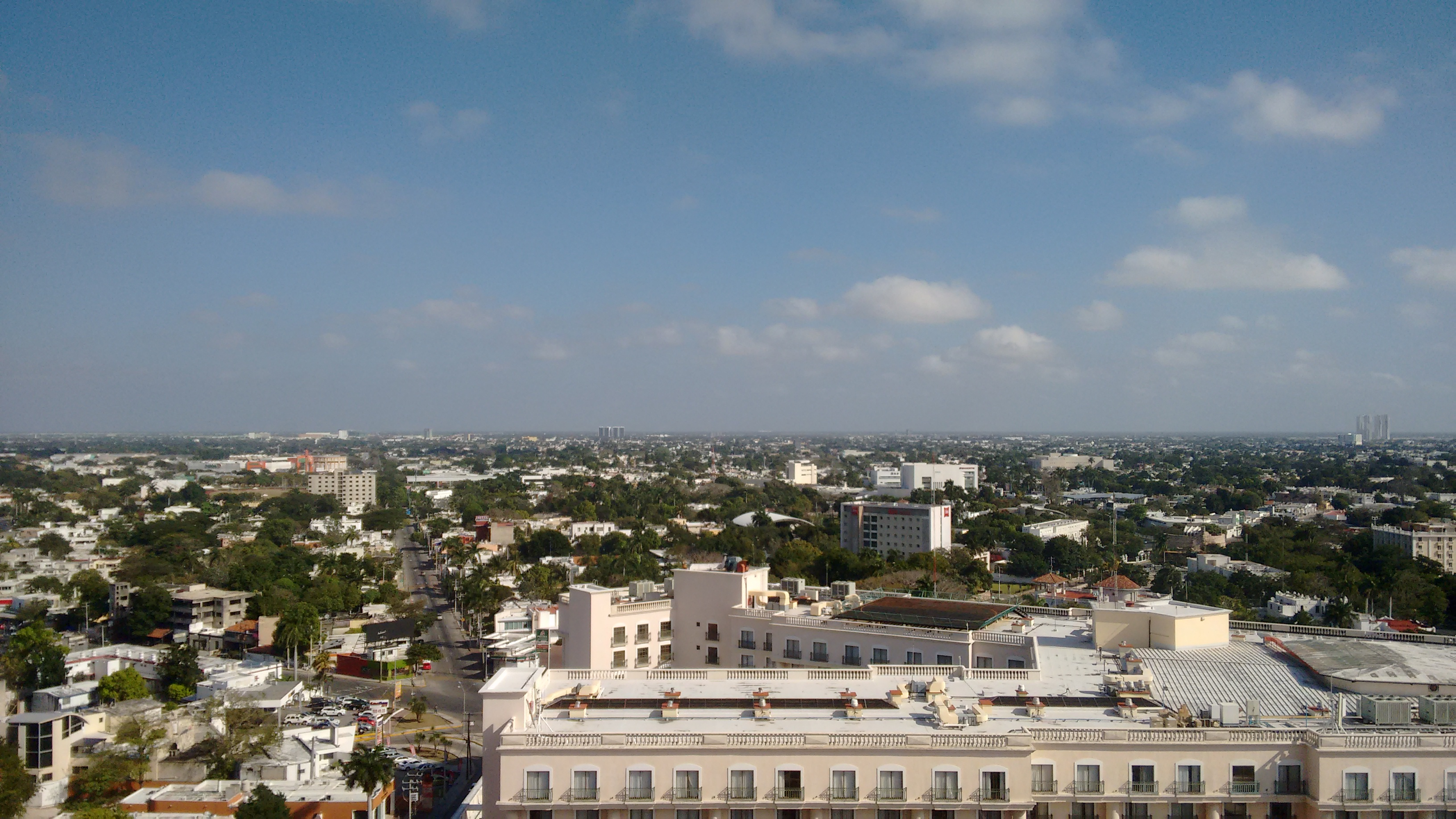 Skyline of the city of Mérida, México. The city as seen from the 18th floor of the Hyatt Regency Hotel.